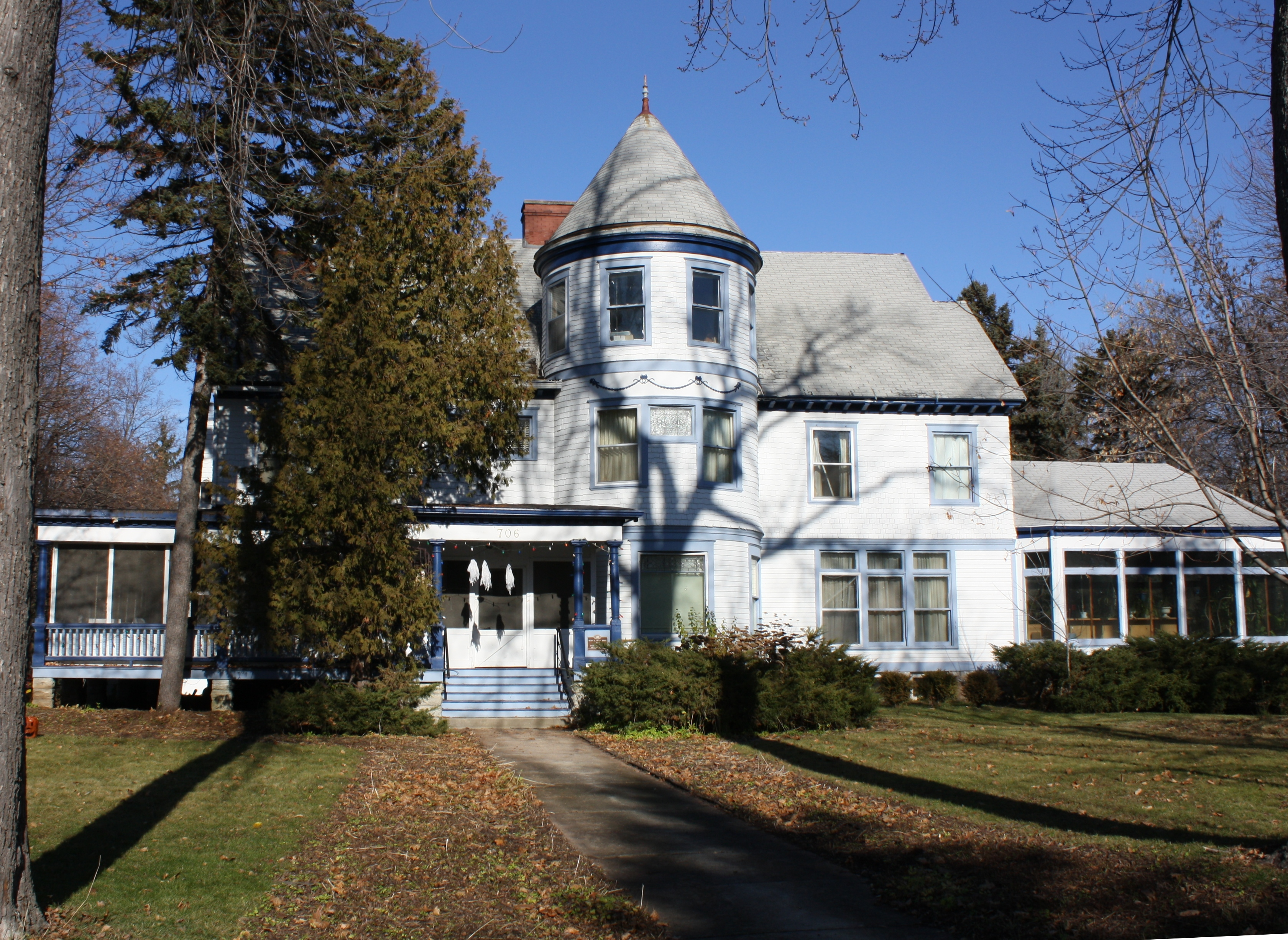 The Henry Spencer Smith House in Neenah, Wisconsin. It is listed on the National Register of Historic Places.